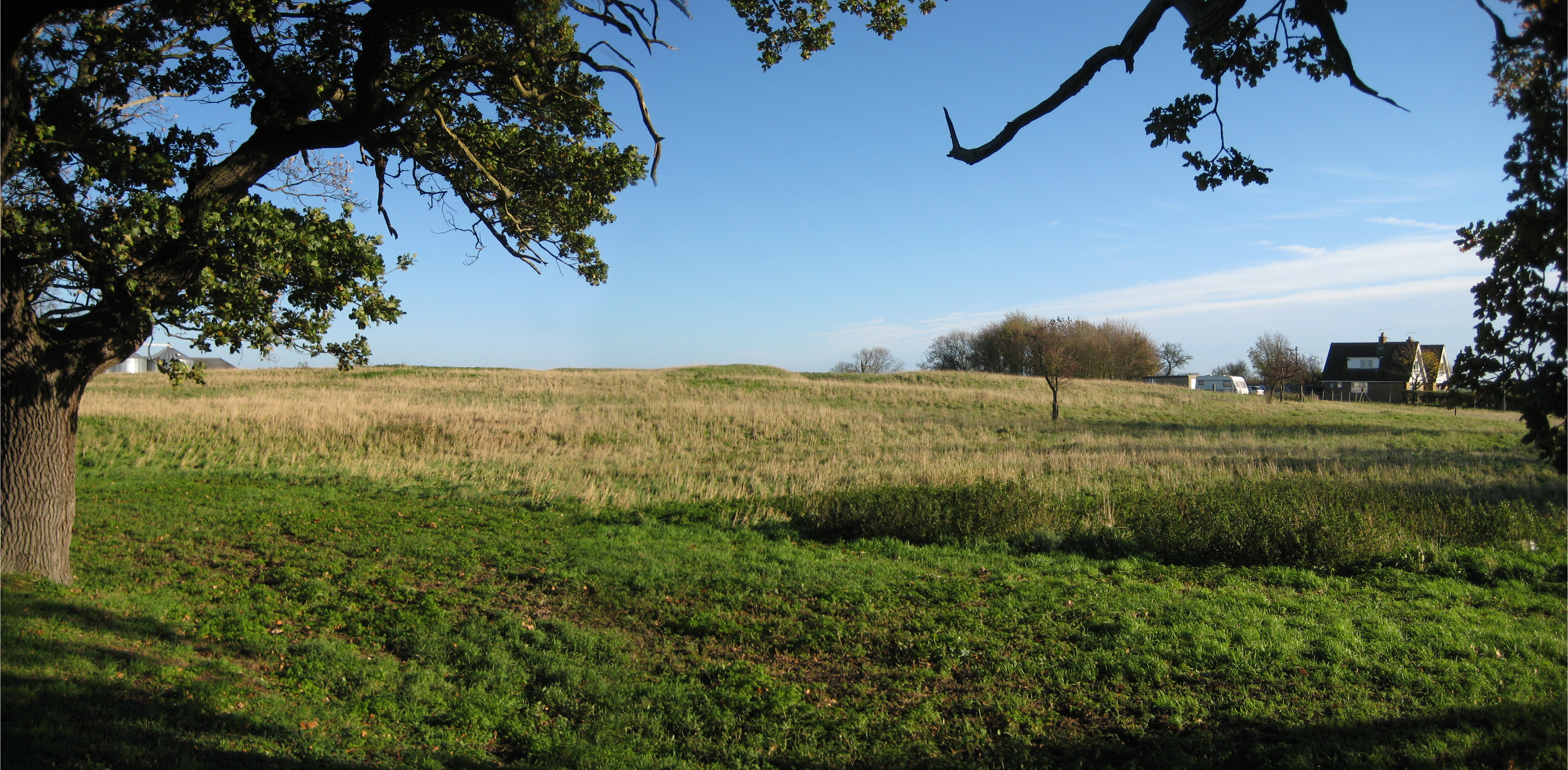 Site of Woodwalton Castle, Huntingdonshire, Autumn 2010.